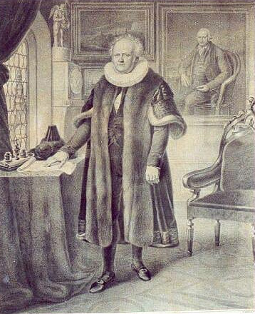 Martin Garlieb Sillem